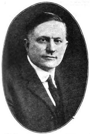 Charles A. Templeton (Connecticut Governor)